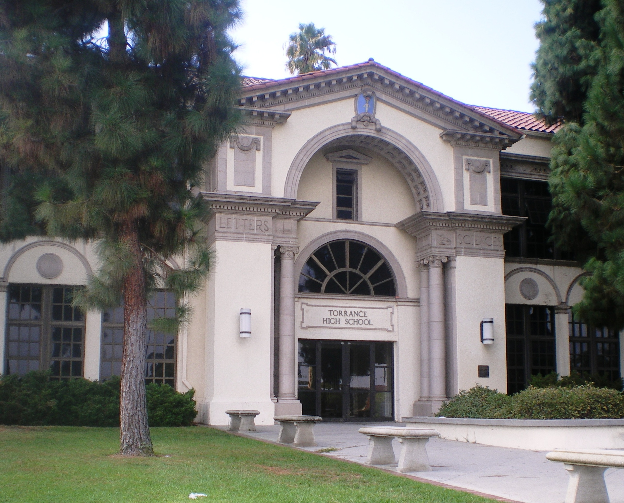 Entrance facade/portal of the Main Building at Torrance High School, located in Torrance, southwestern Los Angeles County, California. The 1917 Mediterranean Revival style building and courtyard are on the National Register of Historic Places in Los Angeles County.